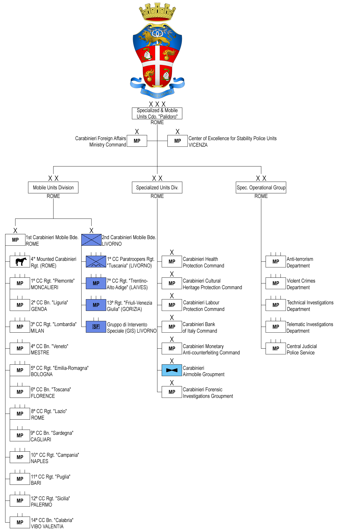 Structure Italian Carabinieri Specialist & Mobile Unit Command "Palidoro" July 2020